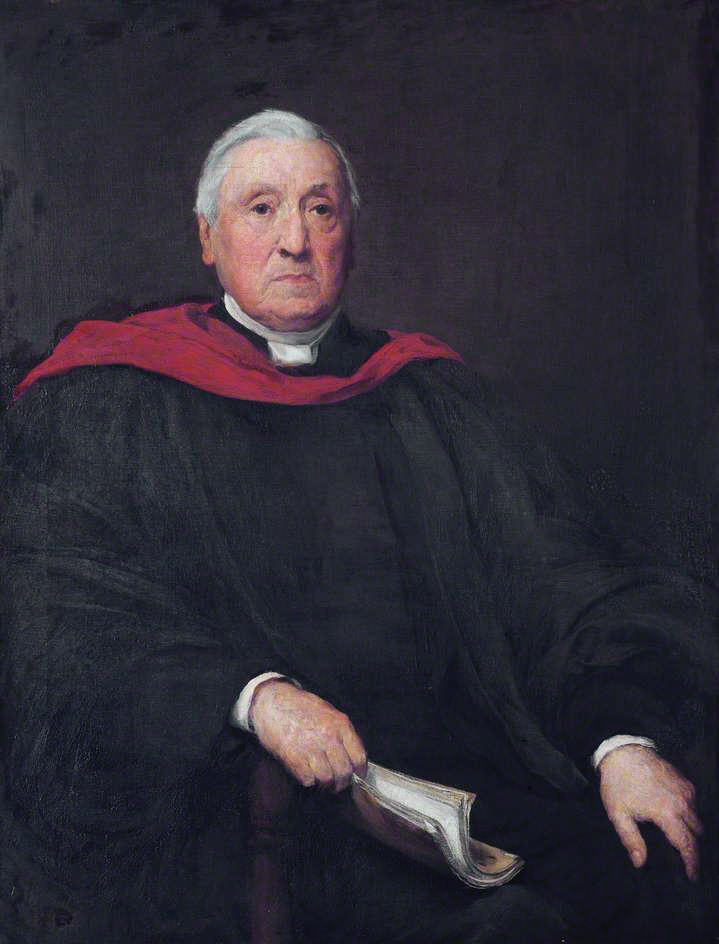 Benjamin Hall Kennedy (1804–1889), DD, Regius Professor of Greek, Headmaster of Shrewsbury School